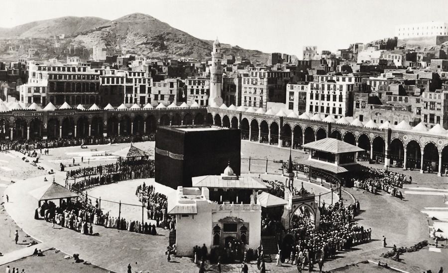 Great Mosque of Mecca and Kaaba - 1934